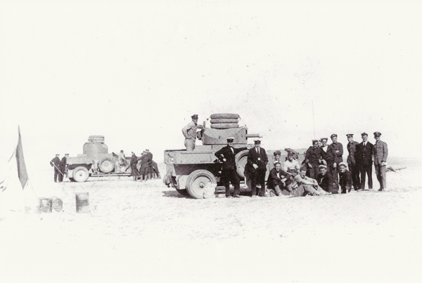 uk army helps kuwait in 1928.